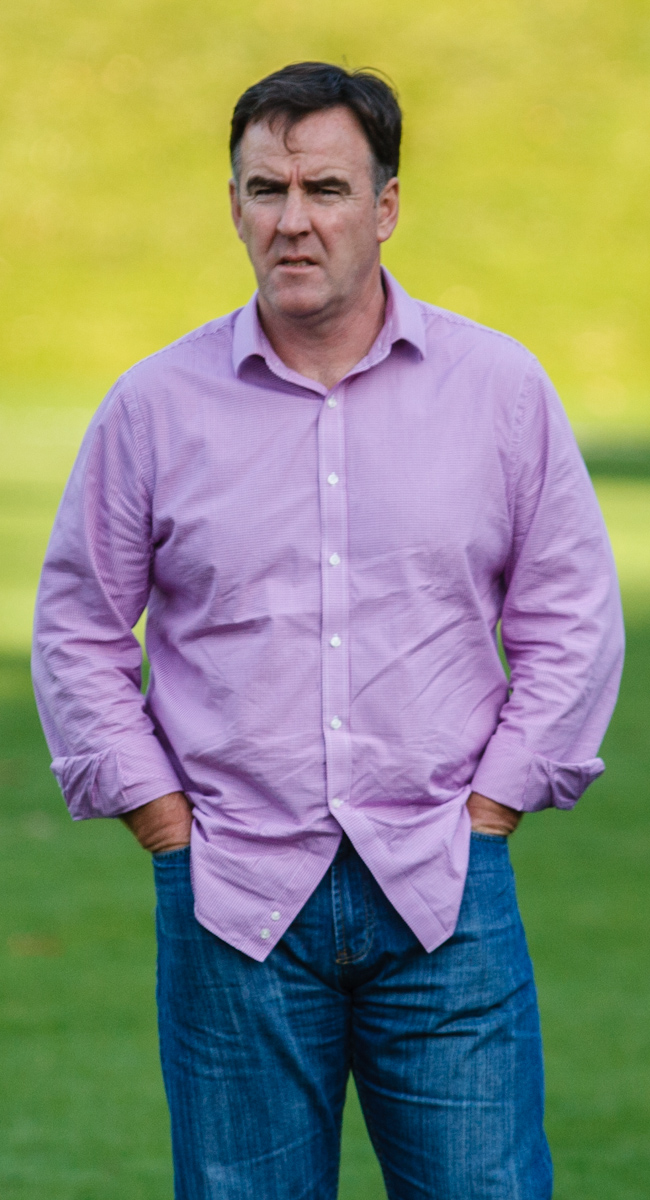 Lawrie McKinna attending a pre-season game between the Central Coast Mariners and Melbourne Victory on 16/09/2012.